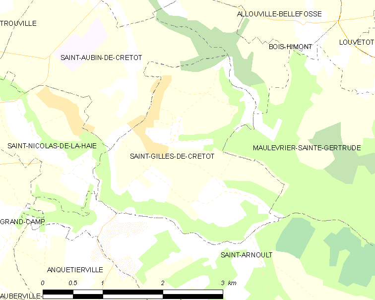 Map of French municipality Saint-Gilles-de-Crétot